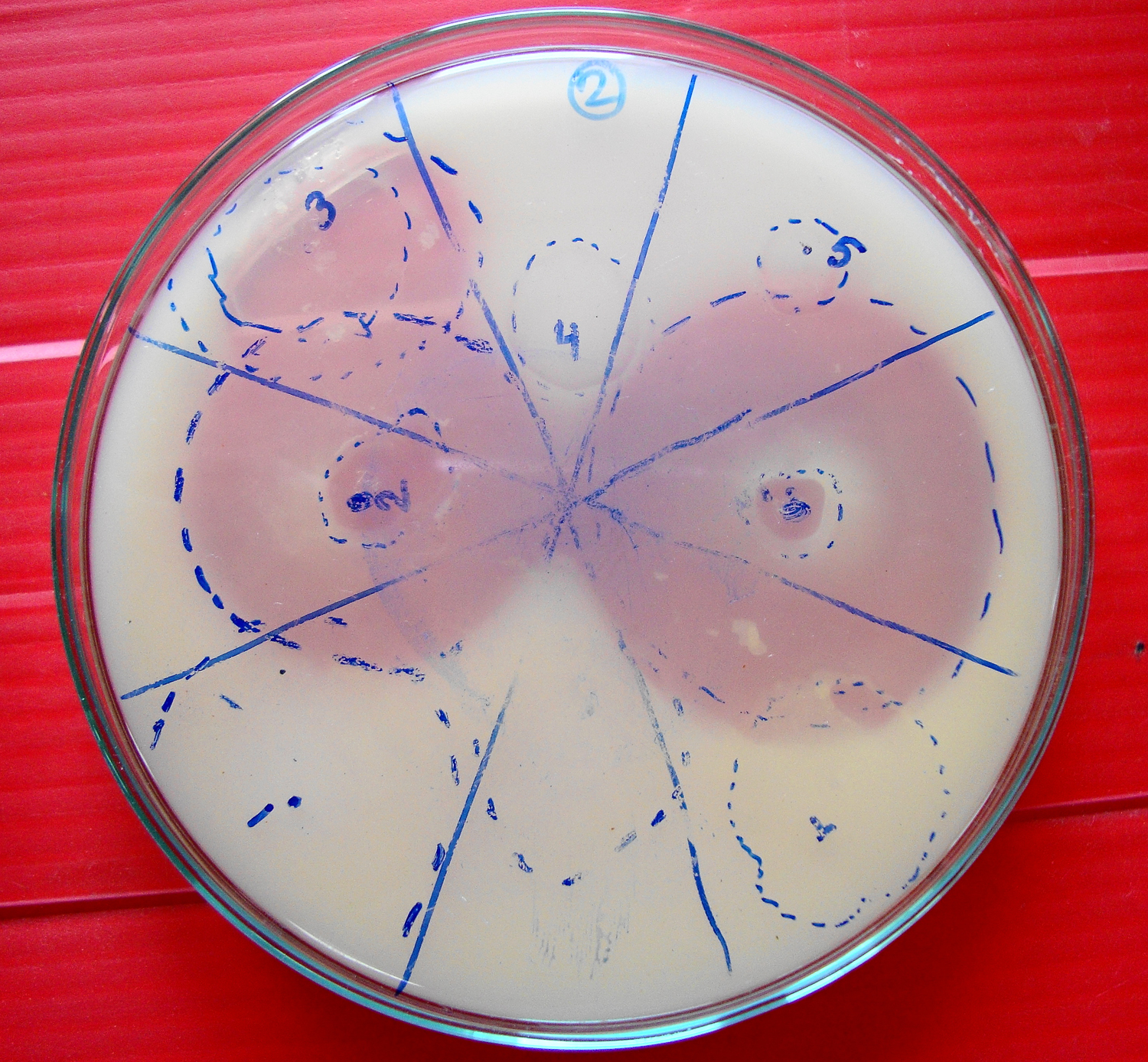 Phosphate solubilizing bacteria cultured in petri dish containing specific media for growth. Image shows phosphate solubilizing bacteria utilizes the media for their growth. The zone of clearance can be clearly seen in the image.